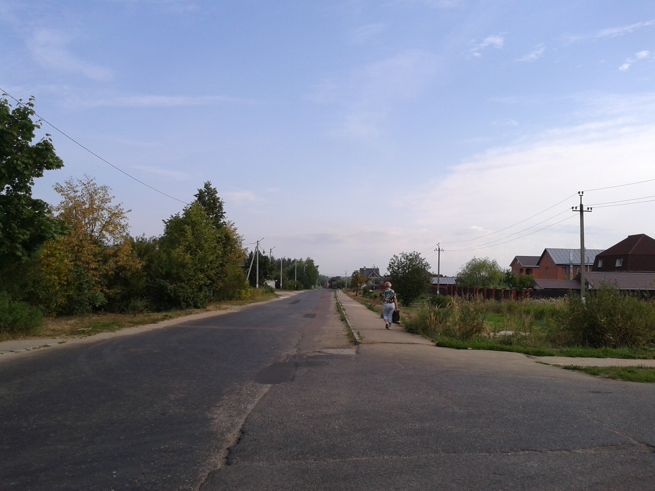 Street in LMS (NewMoscow)